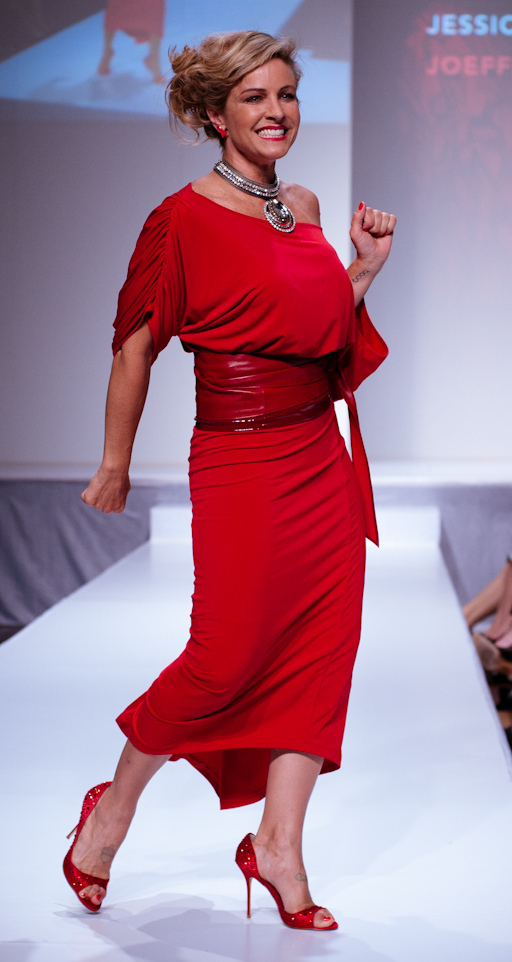 Jessica Steen - The Heart Truth celebrity fashion show - Red Dress - Red Gown - Thursday February 8, 2012